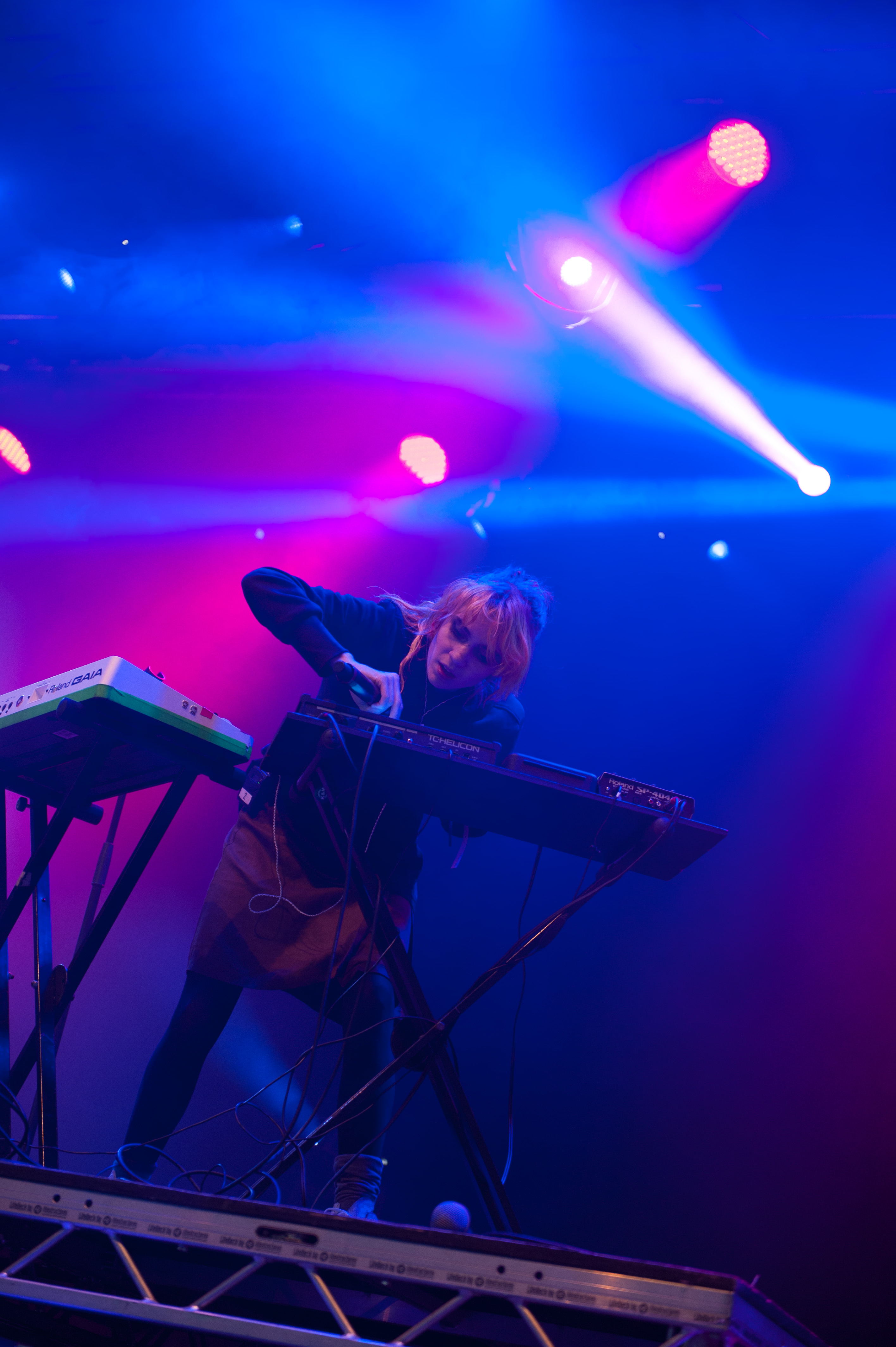 Grimes (Claire Boucher) at Way Out West 2013 in Gothenburg, Sweden